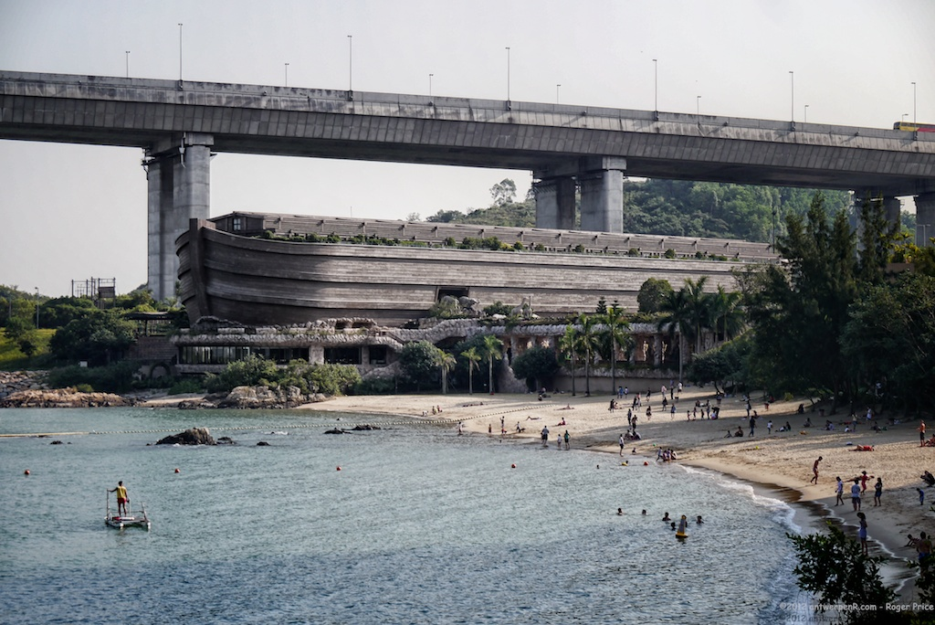 Noah's ark has landed on the beach… apparently this is "life-size"